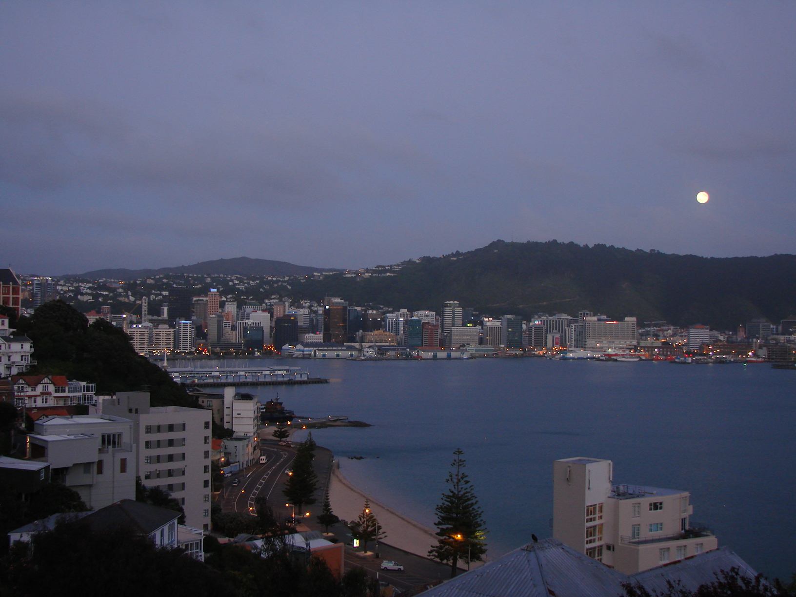 View of Wellington Harbour from Oriental Bay (New Zealand)